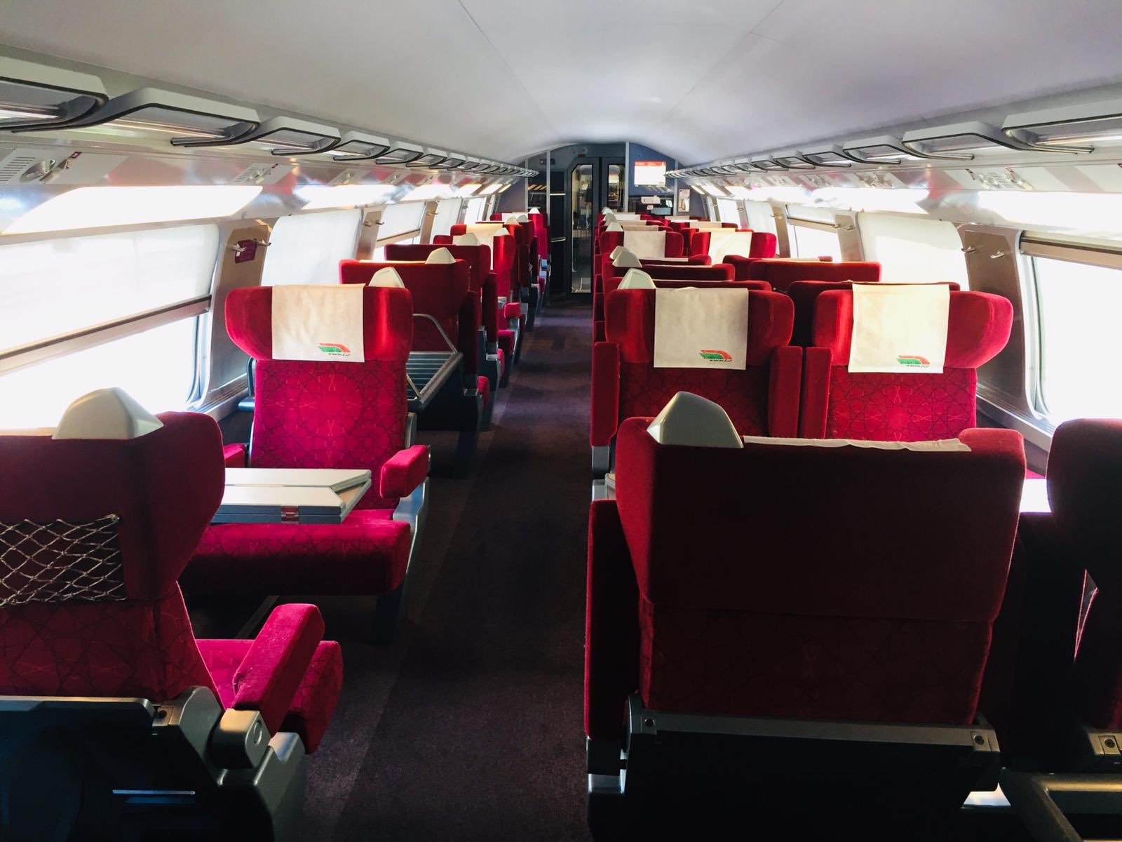 ONCF's Al-Boraq first class